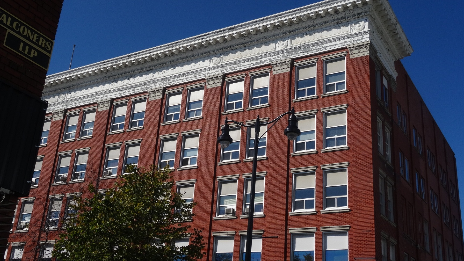 Photo of historic grain exchange building in the downtown south core of Thunder Bay, Ontario, Canada.